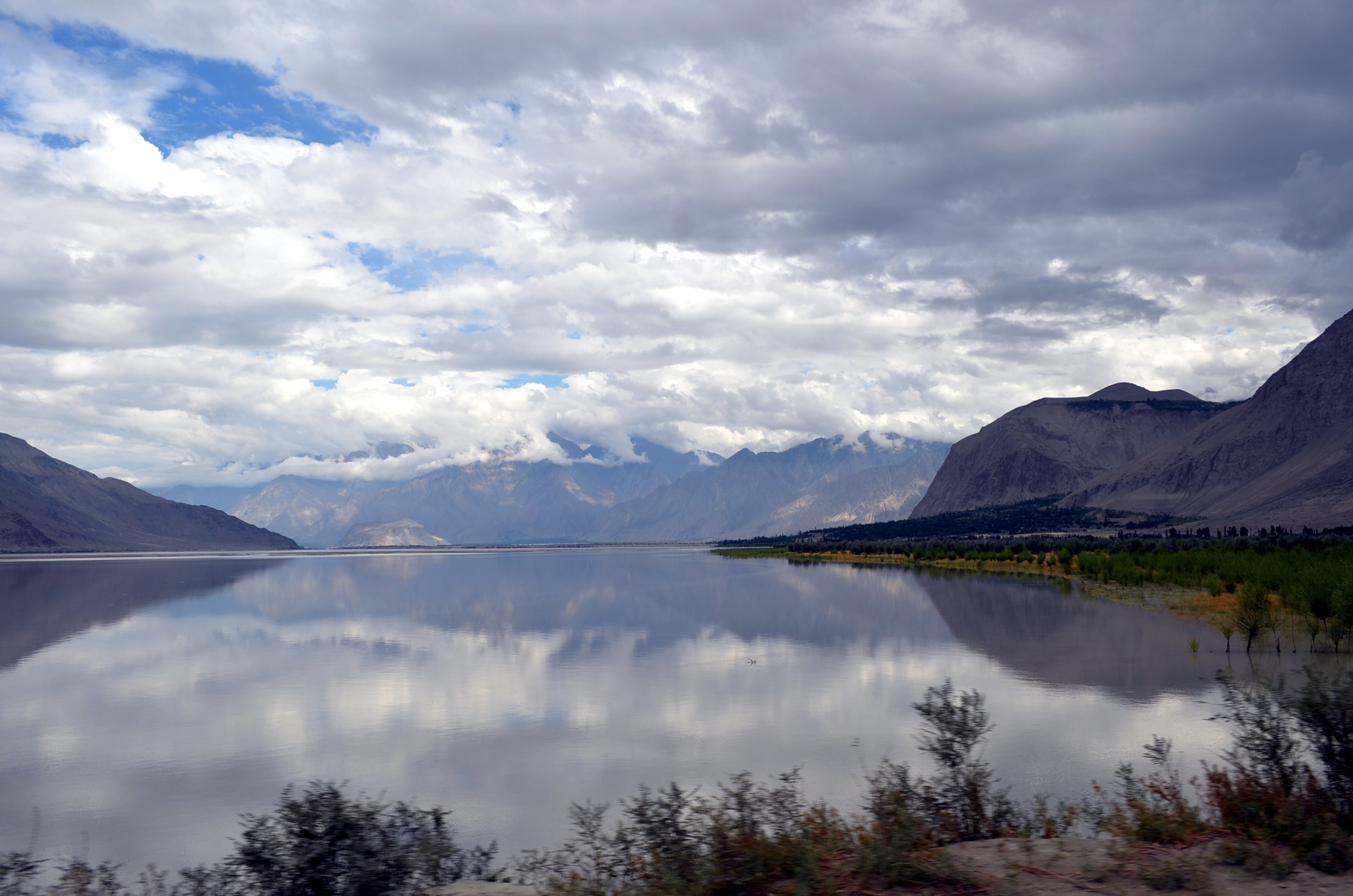 Sindh, Skardu